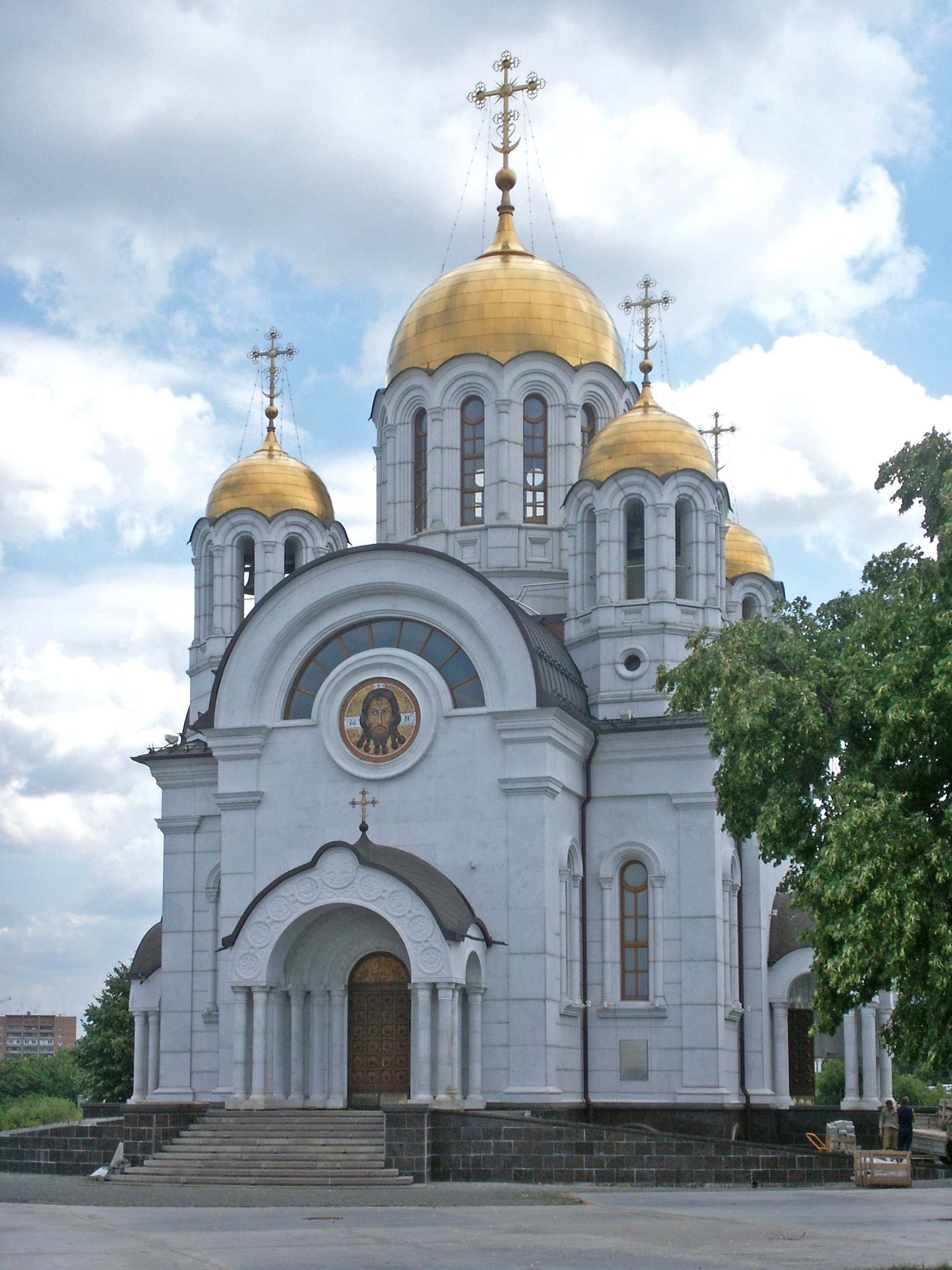 Saint George's Lutheran Church in Samara